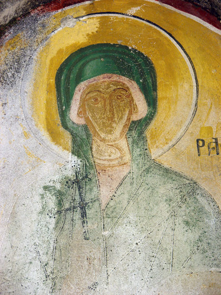 Fresoes in St. Paraskevi Church in Siatista, Greece